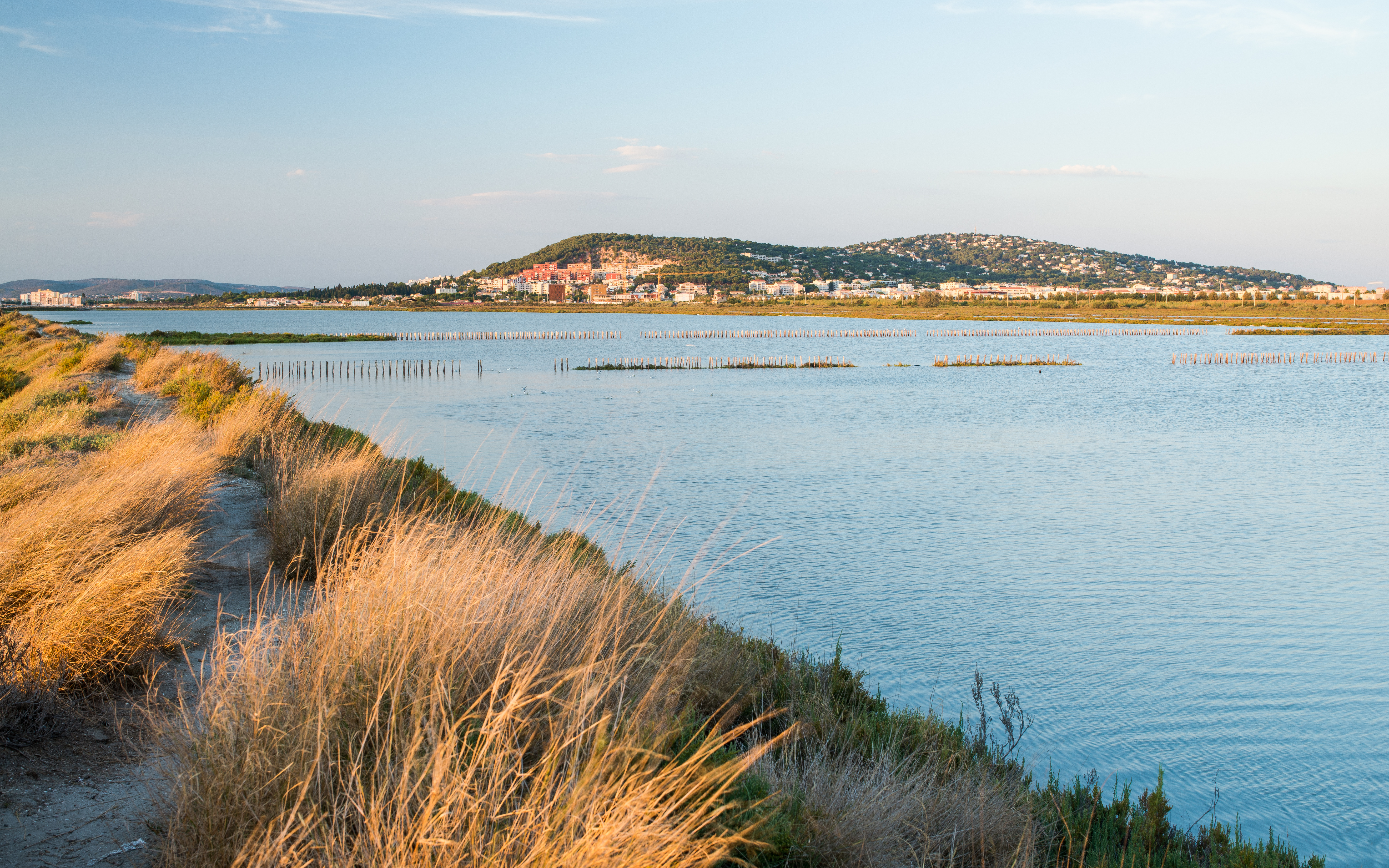 Former salt evaporation ponds ("salins de Villeroy") and in the background the Mount Saint-Clair and the town of Sète. Photo taken at the "Lido de Thau", an area protected by the Conservatoire du littoral. Sète, Hérault, France.